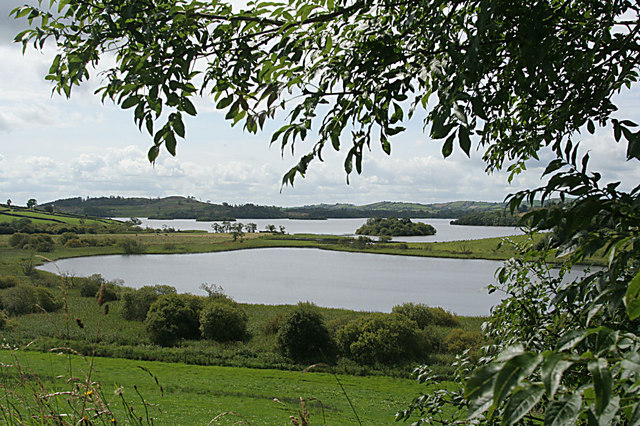 Lough Muckno Co.Monaghan Eire.